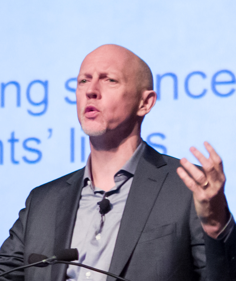 Sandy Macrae, M.B., Ch.B., Ph.D., President and CEO, Sangamo Therapeutics speaks at Rare Disease Day at NIH 2018. Credit: Daniel Soñé Photography, LLC